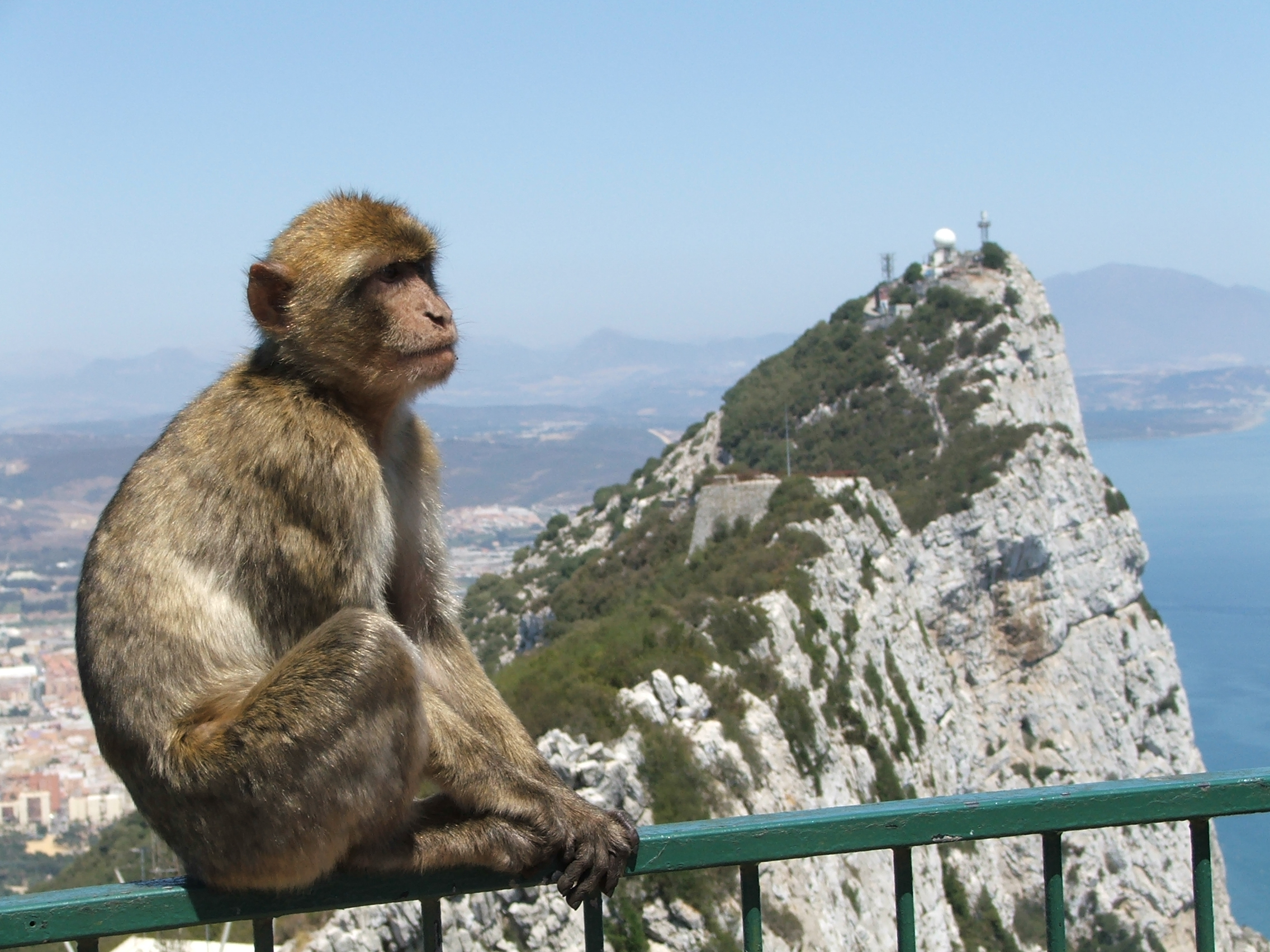 A Barbary Macaque sitting on a railing. The Rock of Gibraltar can be seen in the background.